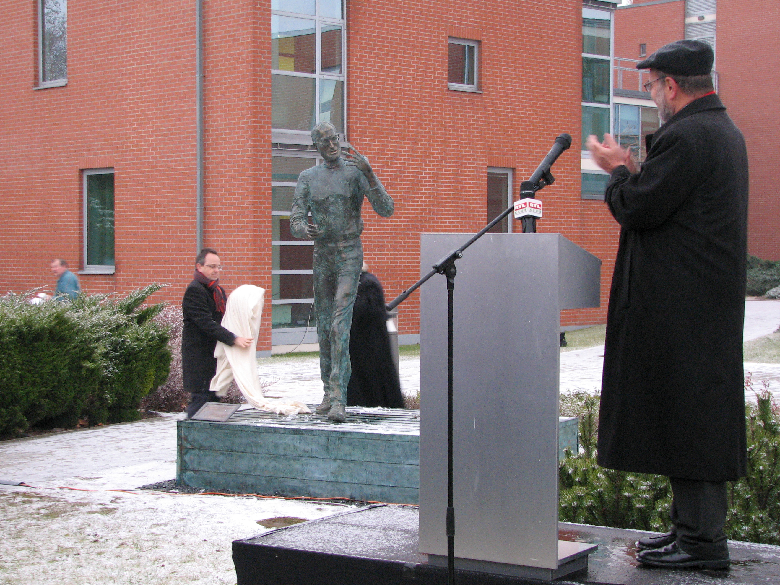 Gabor Bojar unveils the statue of Steve Jobs az Graphisoft Park, Budapest, Hungary